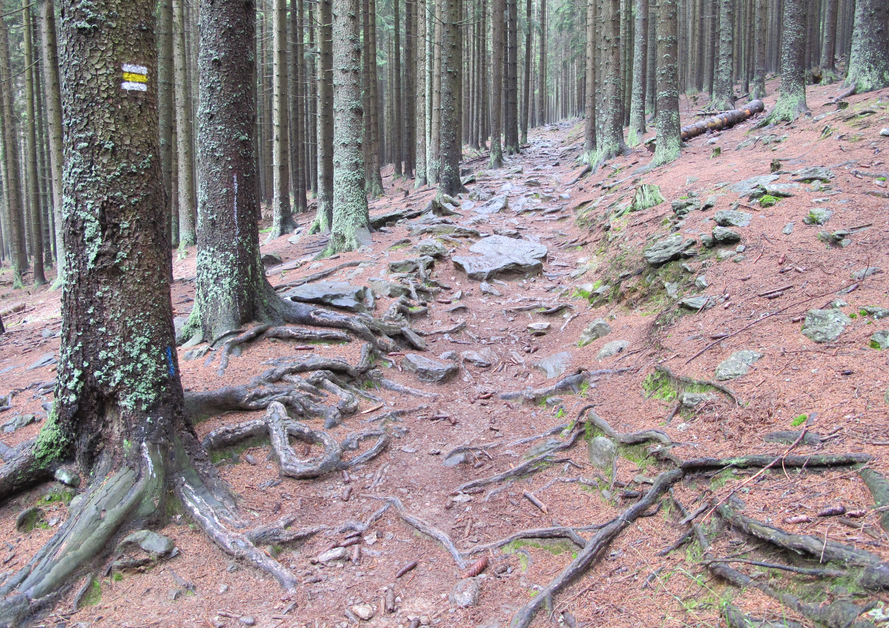 Natural monument Královský hvozd near Železná Ruda and Špičák in Klatovy District